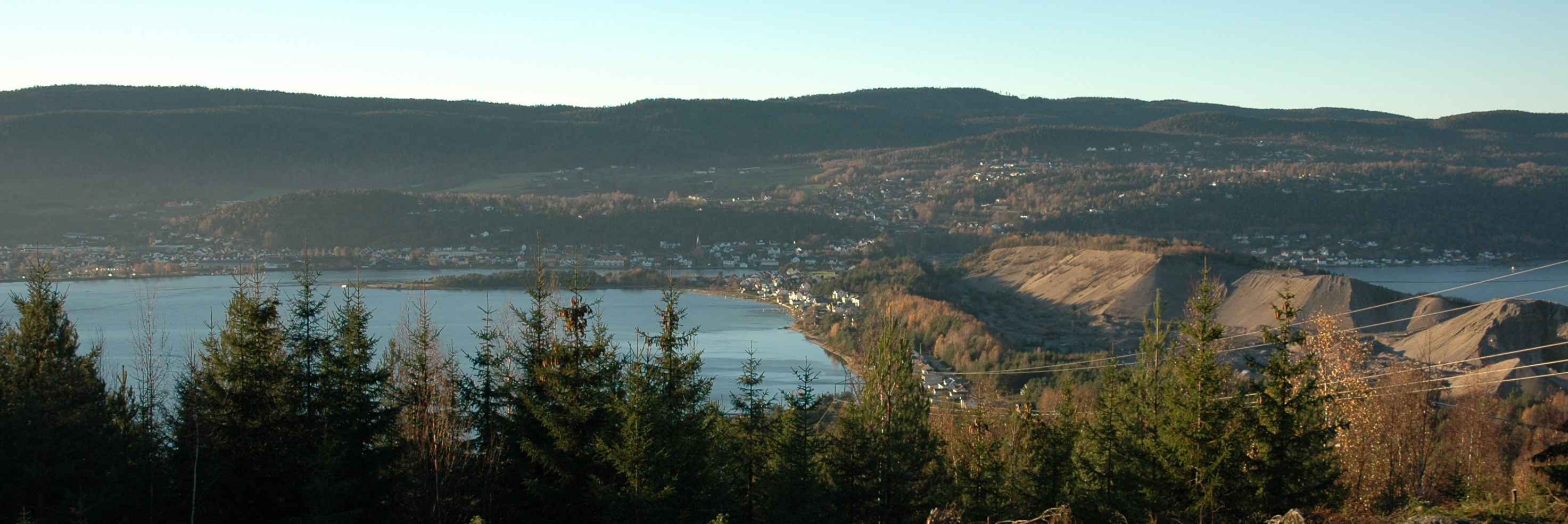 The small community Verket by Drammensjord in Norway. Across the fjord lies Svelvik. My own photography, Kjetil Lenes.